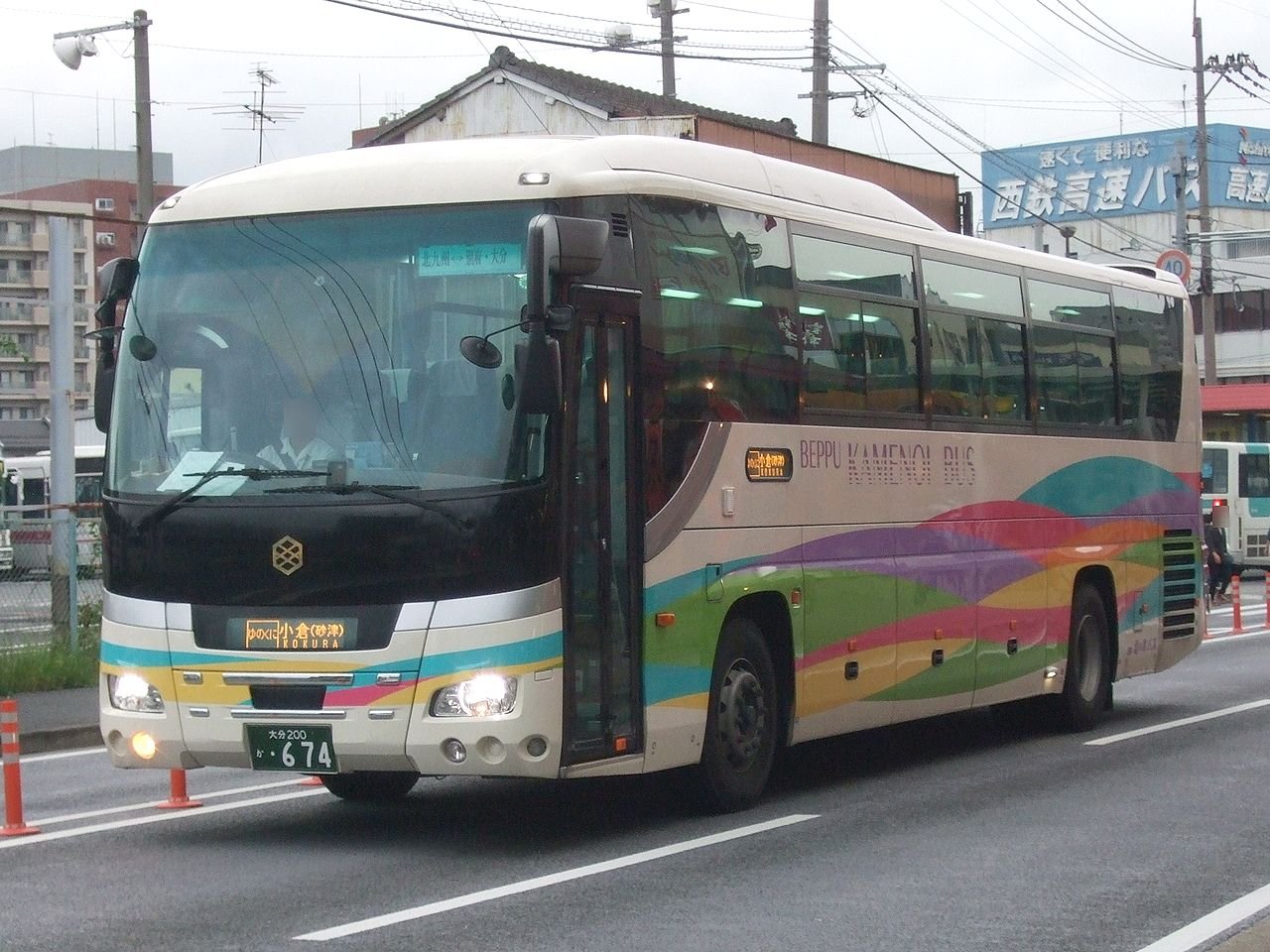 Kamenoi highway bus "Yunokuni", operated between Kitakyushu and Oita. Company:Kamenoi Bus Use:transit bus (express bus) Car license:OT 200 KA 674 Chassis manufacturer:Isuzu Motors Type:Gala Coachbuilder:J-BUS Location:in Kokura Ward, Kitakyushu City, Fukuoka, Japan.